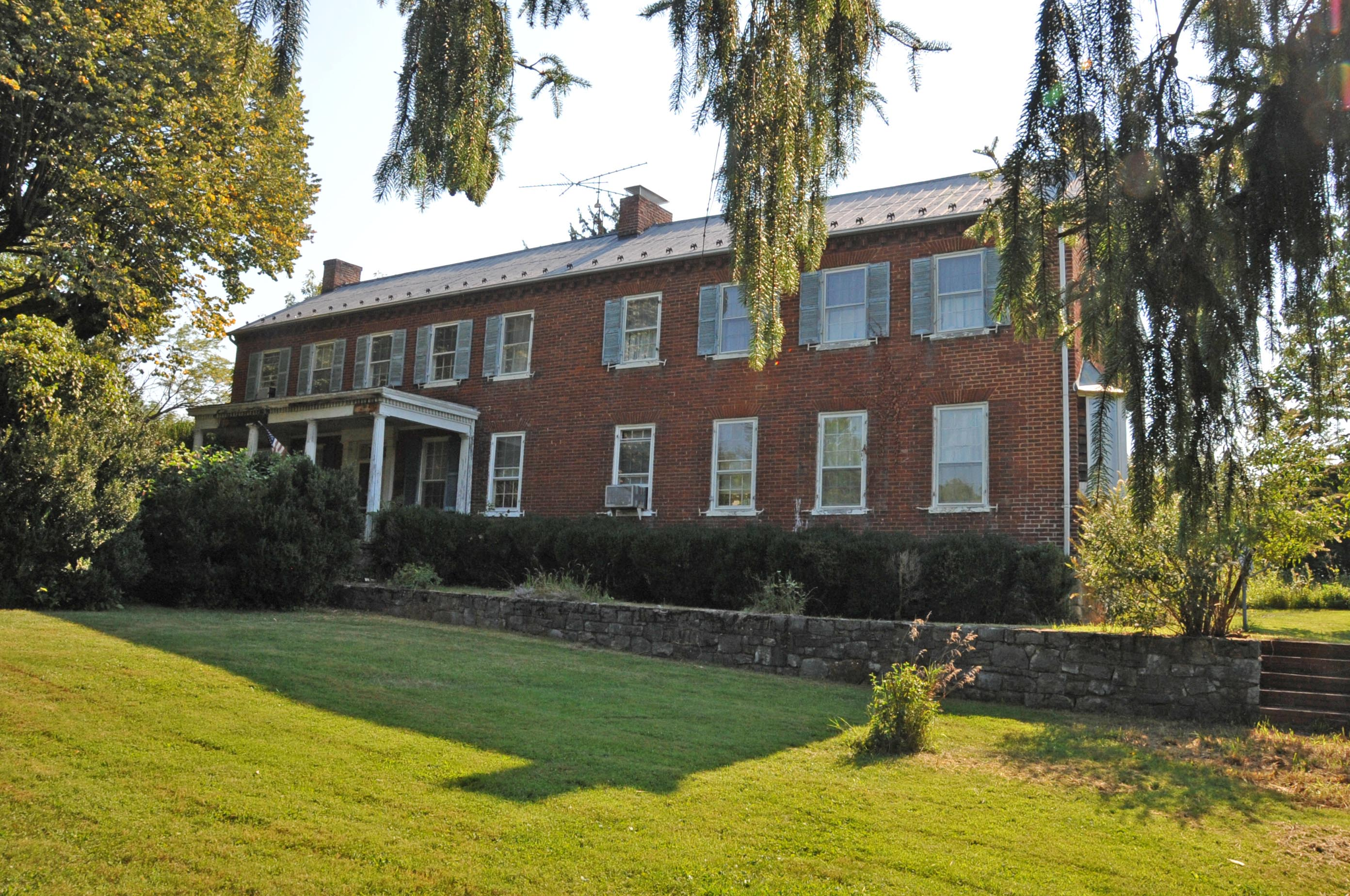 AKA MORGAN ACRES; BUIT IN 1849 BY WILLIAM G. MORGAN, GREAT GRANDSON OF MORGAN MORGAN